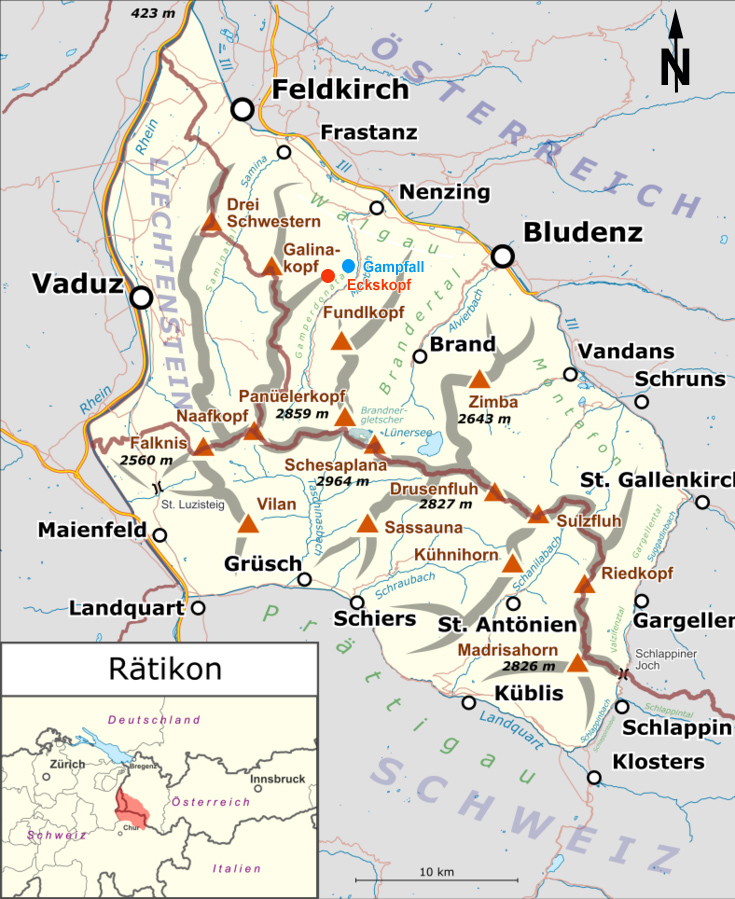 Revised file Rätikon with corner head and Gampfall. The original map is from WP-User Pechristener and would be saved under the file: "Rätikon_map.png".